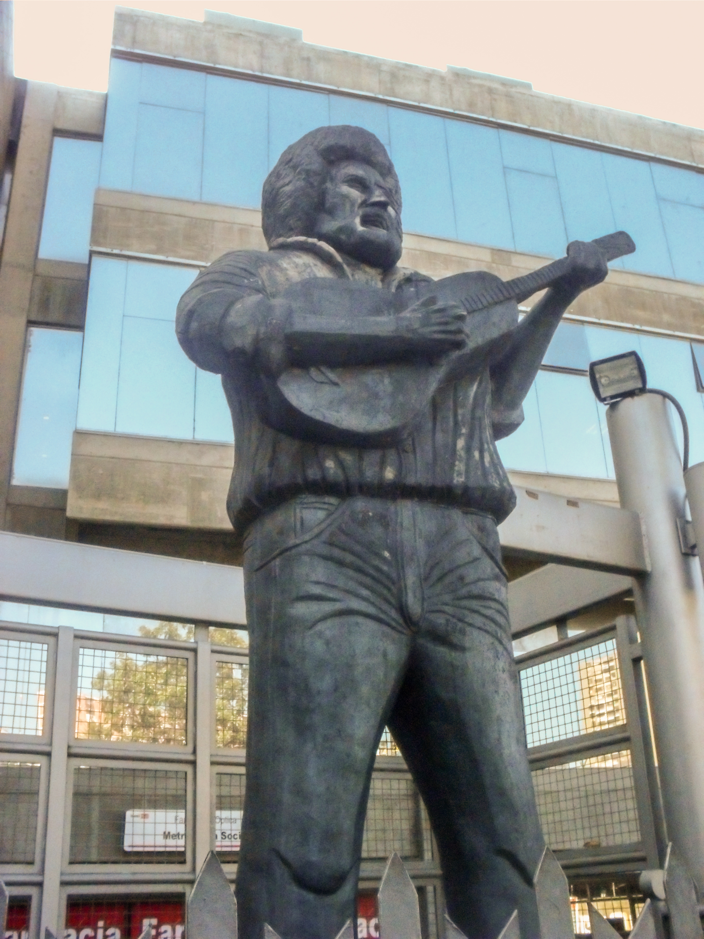 Statue of Alí Primera in Los Teques, Miranda State.